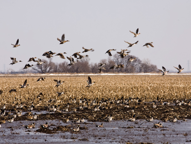 Ducks flying over the rice fields of the Arkansas Delta.